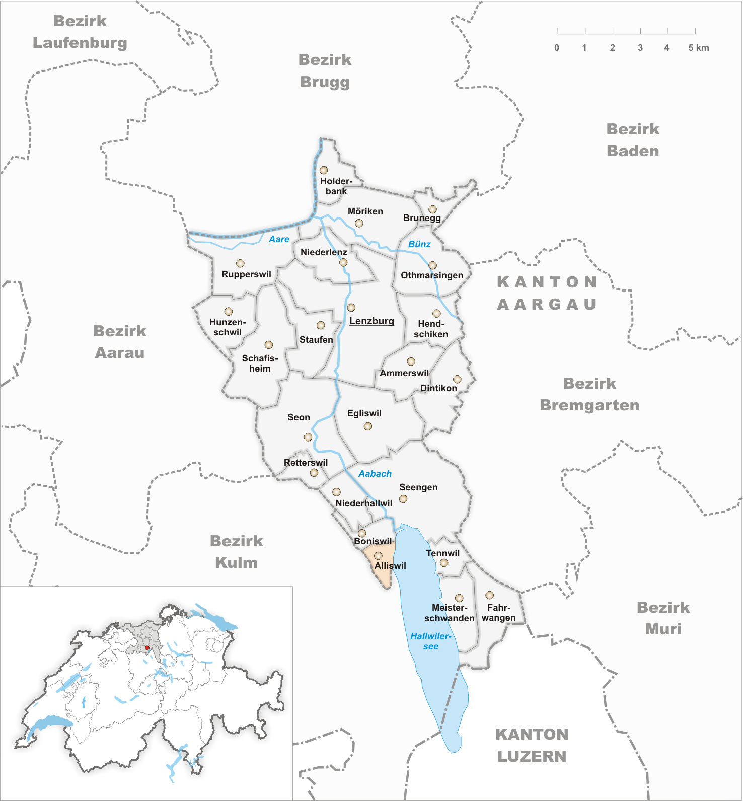 Municipality Alliswil